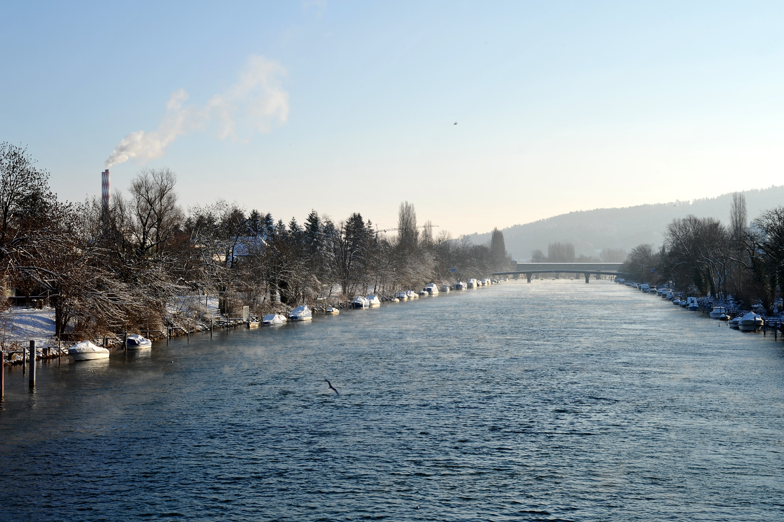 Nidau-Büren Channel in Nidau; Berne, Switzerland. View to the weir in Port.